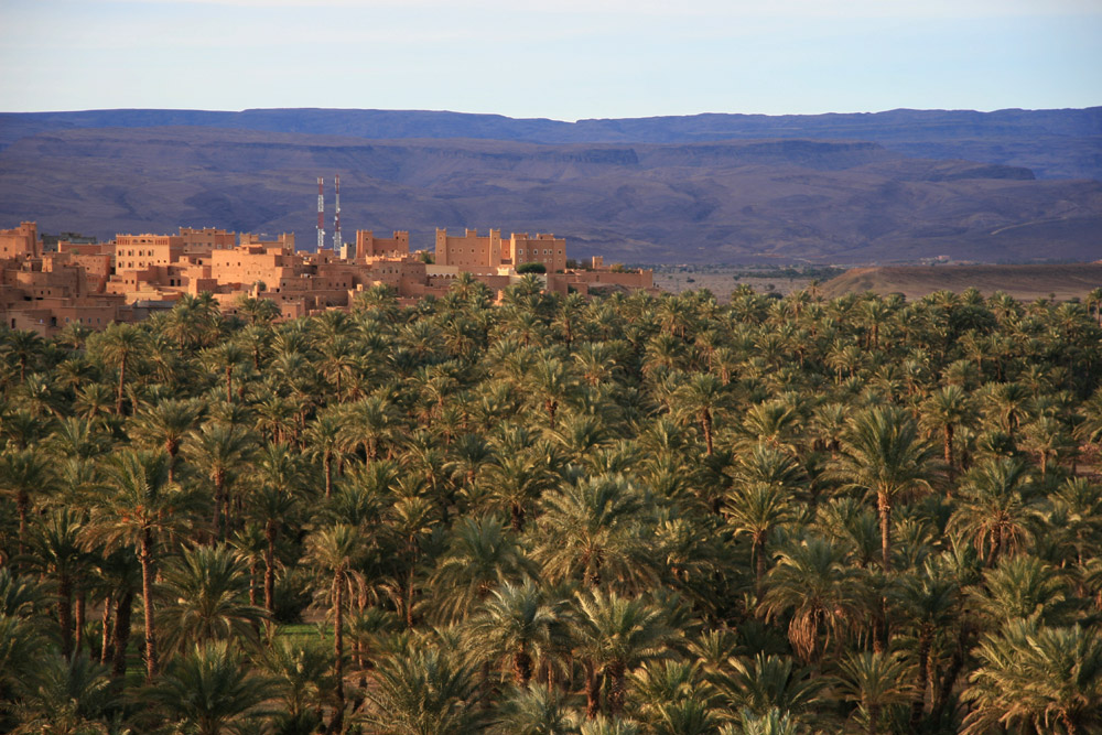 View of Nkob village and Oasis in Morocco